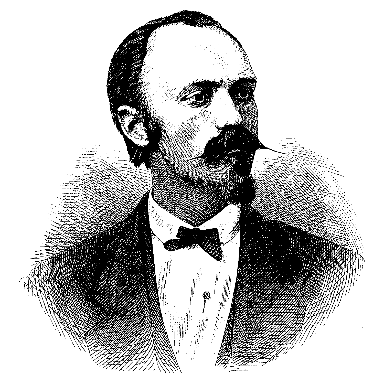 Sketch of Calixa Lavallée from 1873, and thus public domain. Copied from [1] which took it from L'Opinion publique, vol. 4, no. 11 (13 mars 1873), p.125